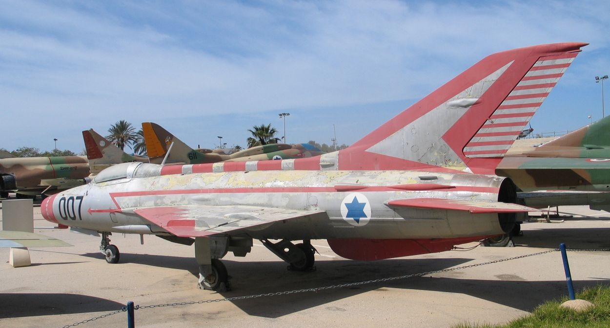 MiG-21F-13 at Muzeyon Heyl ha-Avir, Hatzerim airbase, Israel. 2006.